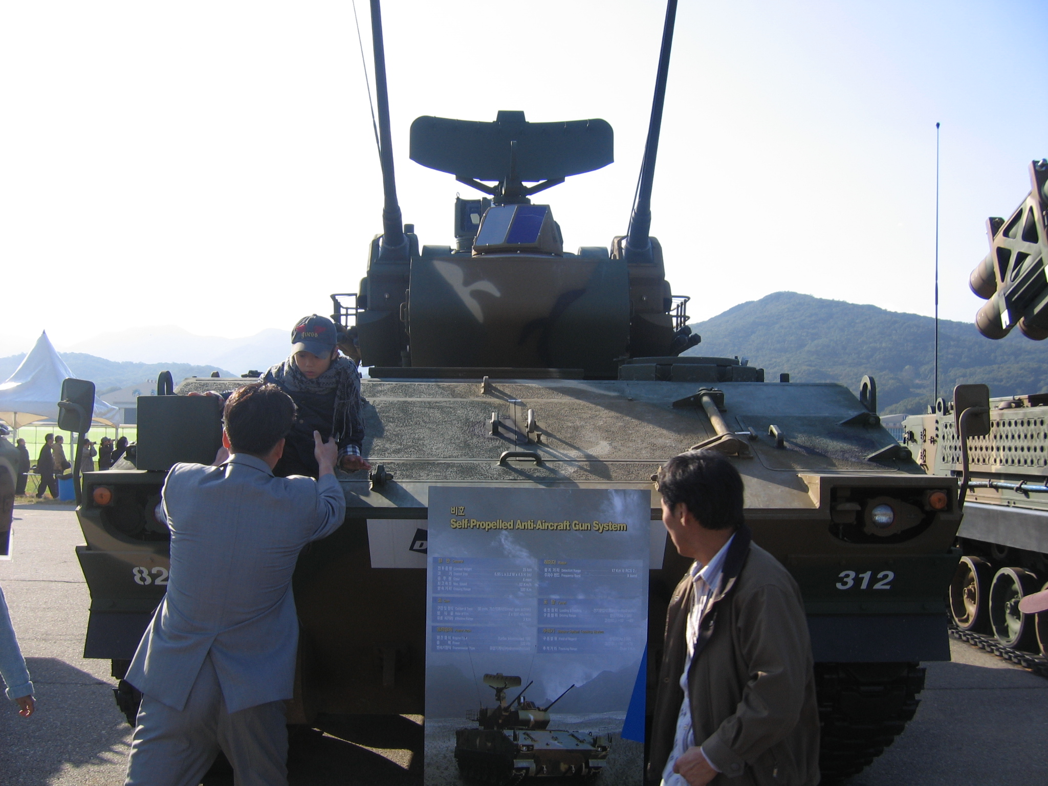 K30 of South Korea which photoed by Rheo1905 in 2007 Seoul Air Show